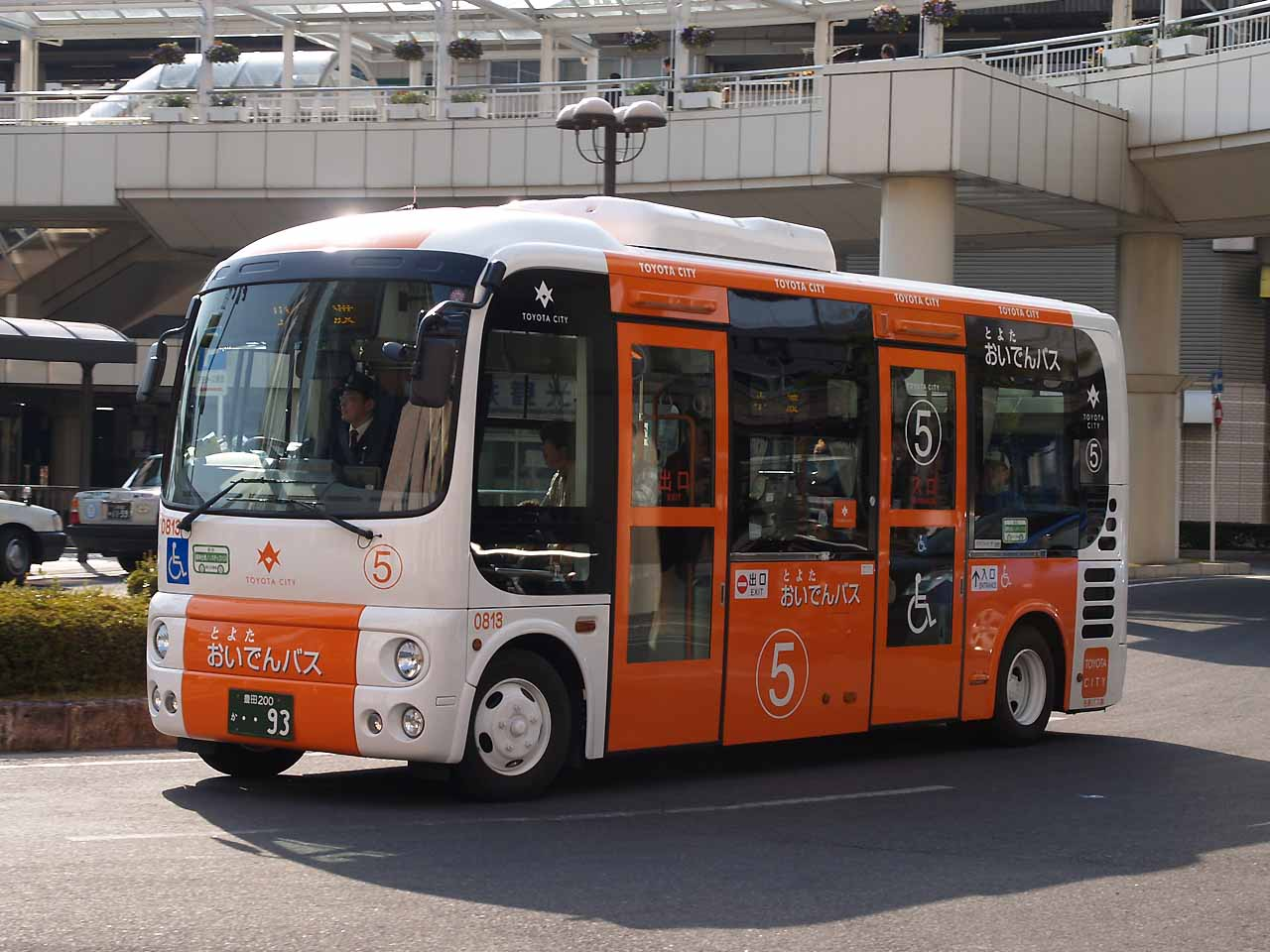 fleet of Toyota City "Oiden Bus". Designed by Eiji Mito-oka & Don Design Associates. Model: Hino Poncho HX License plate: ACT200 KA--93（豊田200か・・93） Place: Meitetsu Toyota-shi Station: Toyota city, Aichi Japan